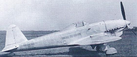 Italian Caproni Vizzola F.6M fighter prototype as originally constructed with a deep radiator bath beneath the nose